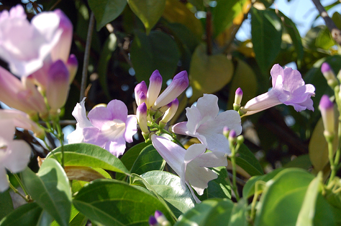 Flowers of Cydista aequinoctialis from Bignoniaceae.